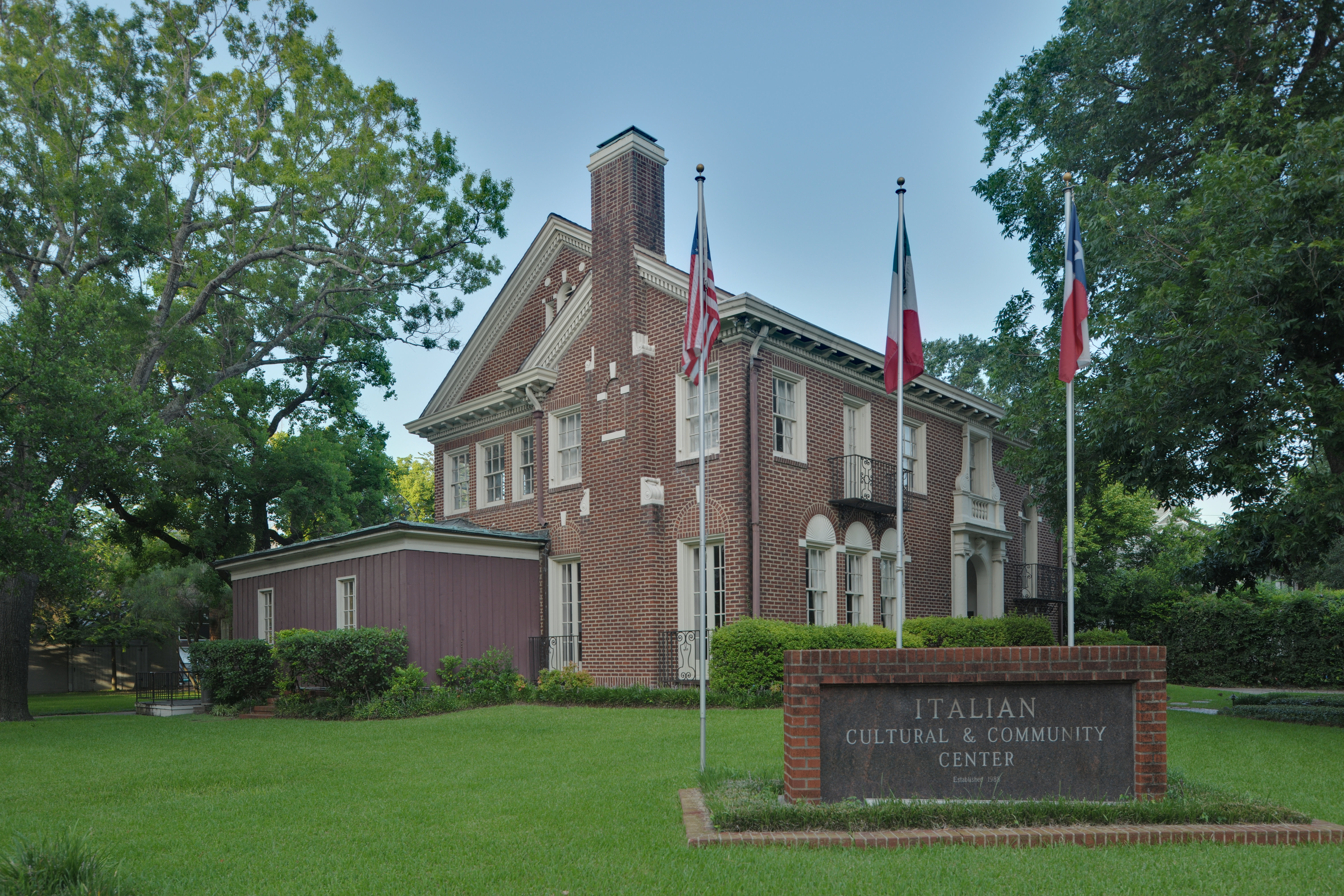 The Logue House, in the Museum District of Houston (Texas, USA) is the home of the Italian Cultural and Community Center and is on the National Register of Historic Places.